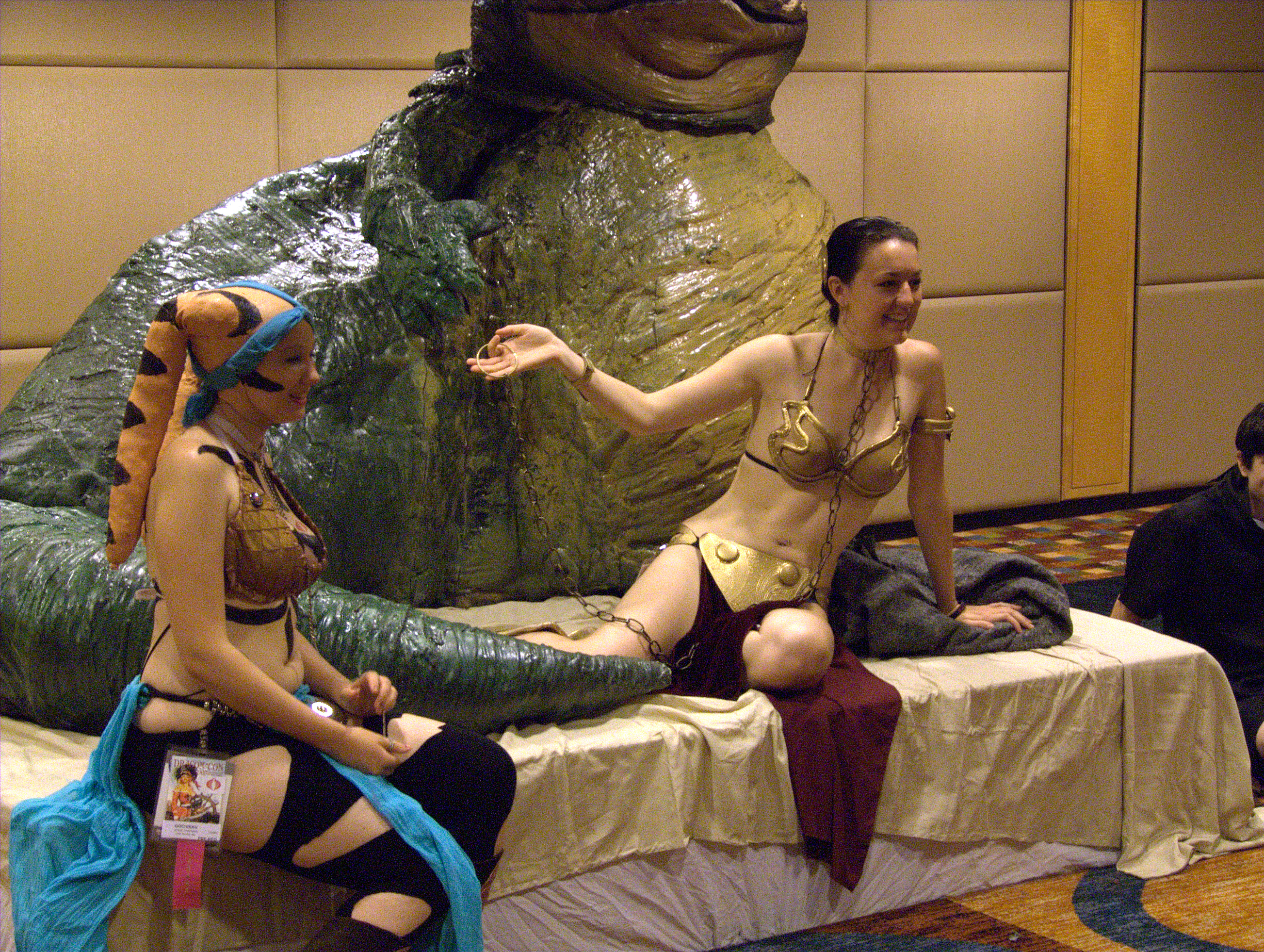 Jabba's slaves (Dragoncon 2006).